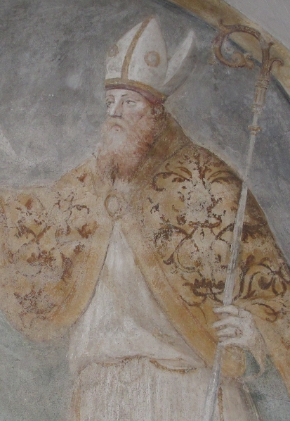 Basilica of Saint Eustorgius in Milan, Italy - Crypt - Fresco (16th century) of Saint Magnus bishop of Milan - particular